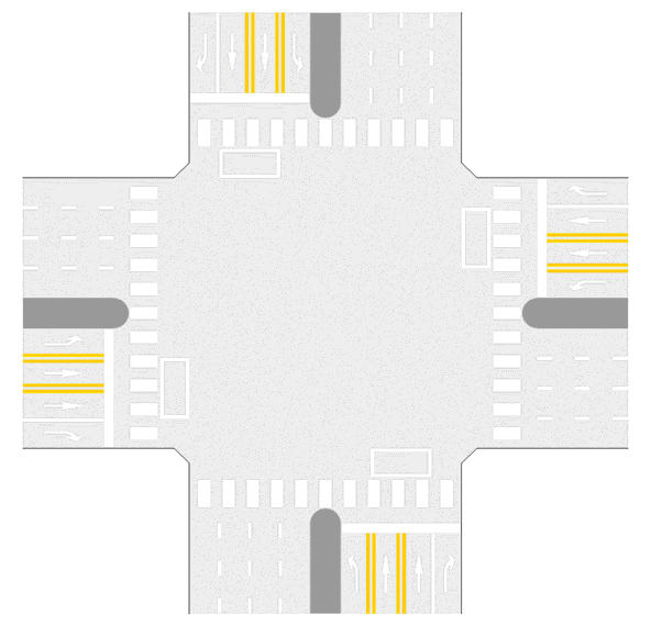 Taiwanese Guide Markings: Motorcycle and Slow Vehicle Left Turn Waiting Area